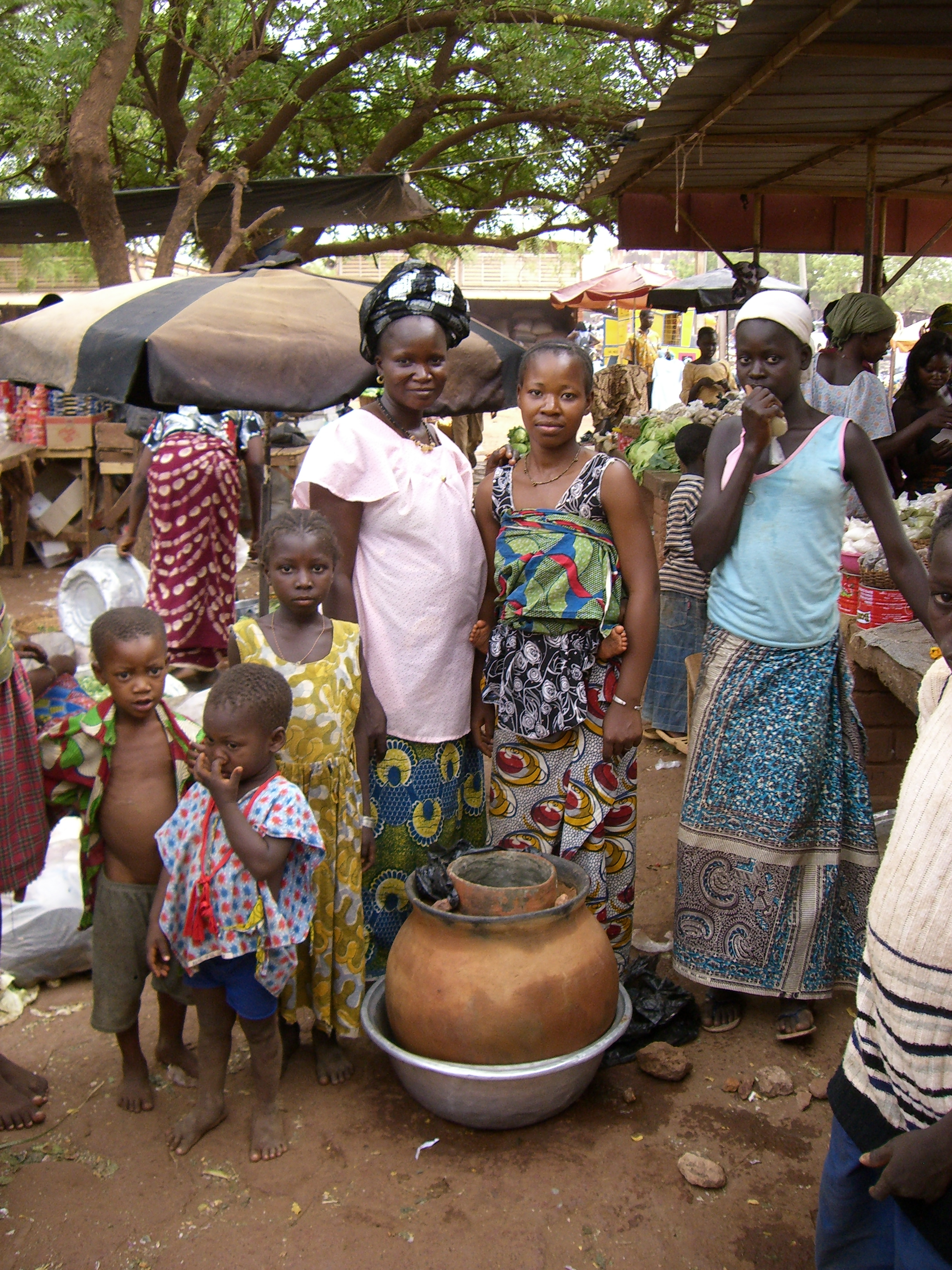 Female vegetable sellers with clay pot cooler on the market in Ouhaigouya, Burkina Faso